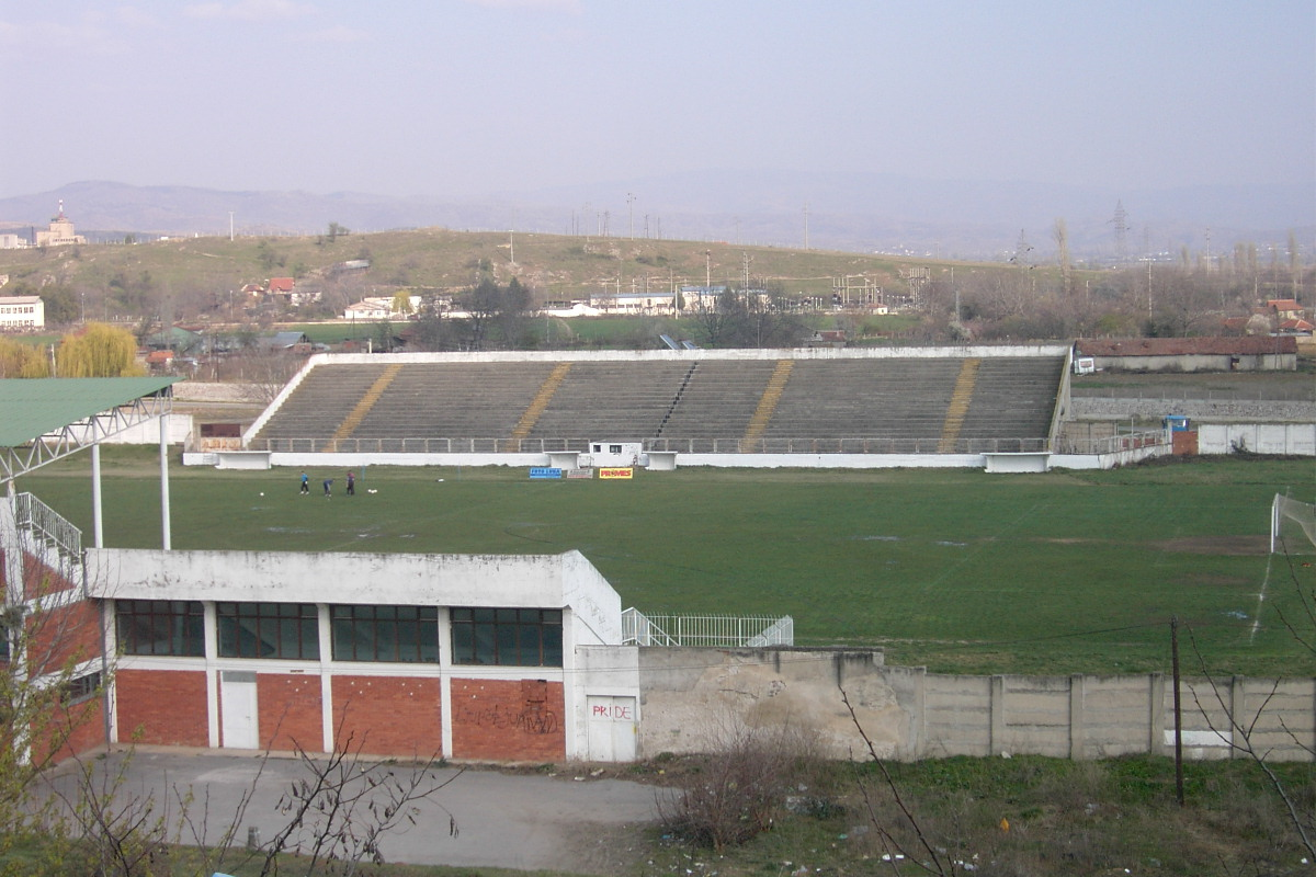 Football stadium Nikola Mantov, Kočani, Republic of Macedonia